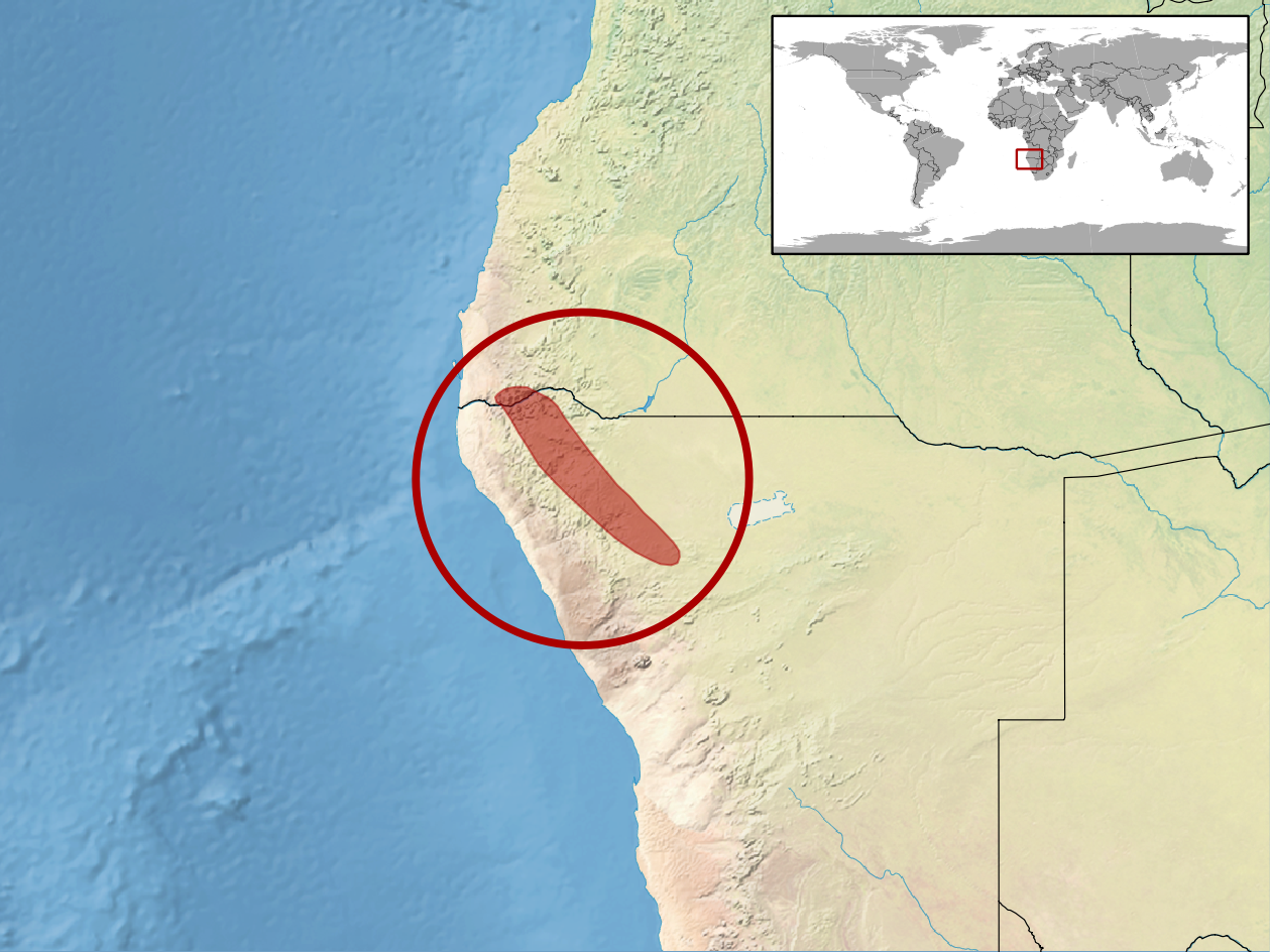 geographic distribution of Sepsina alberti